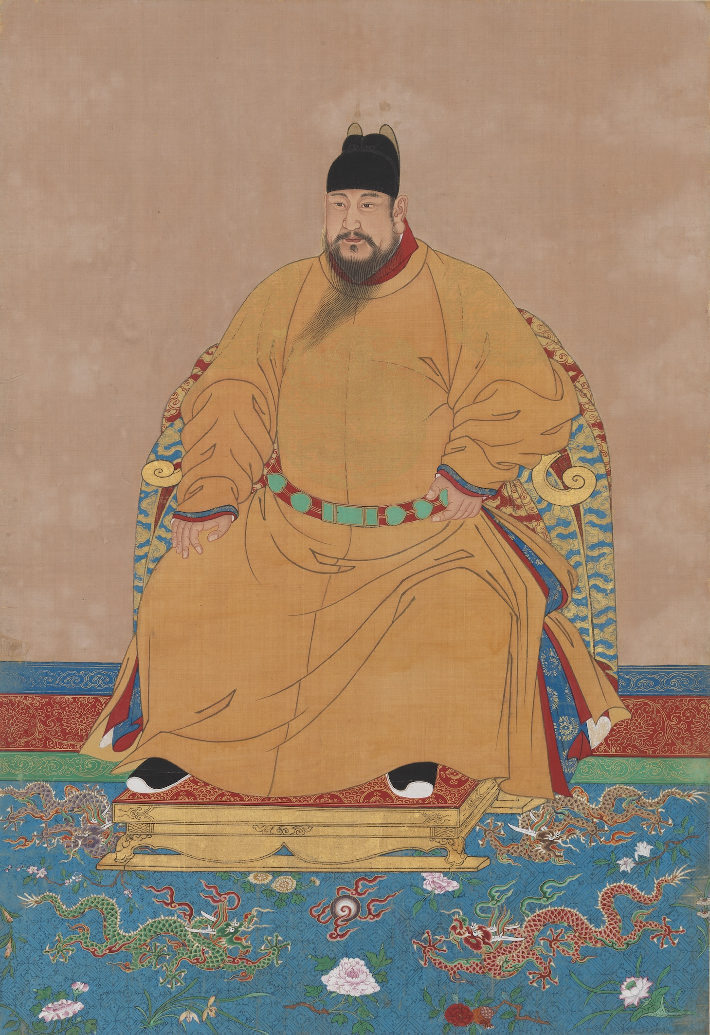 Portrait of Ming Renzong